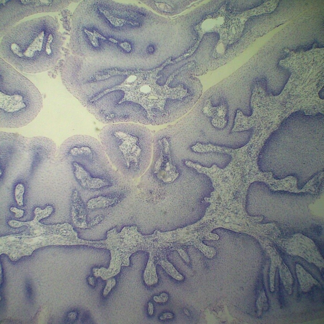 Skin papilloma